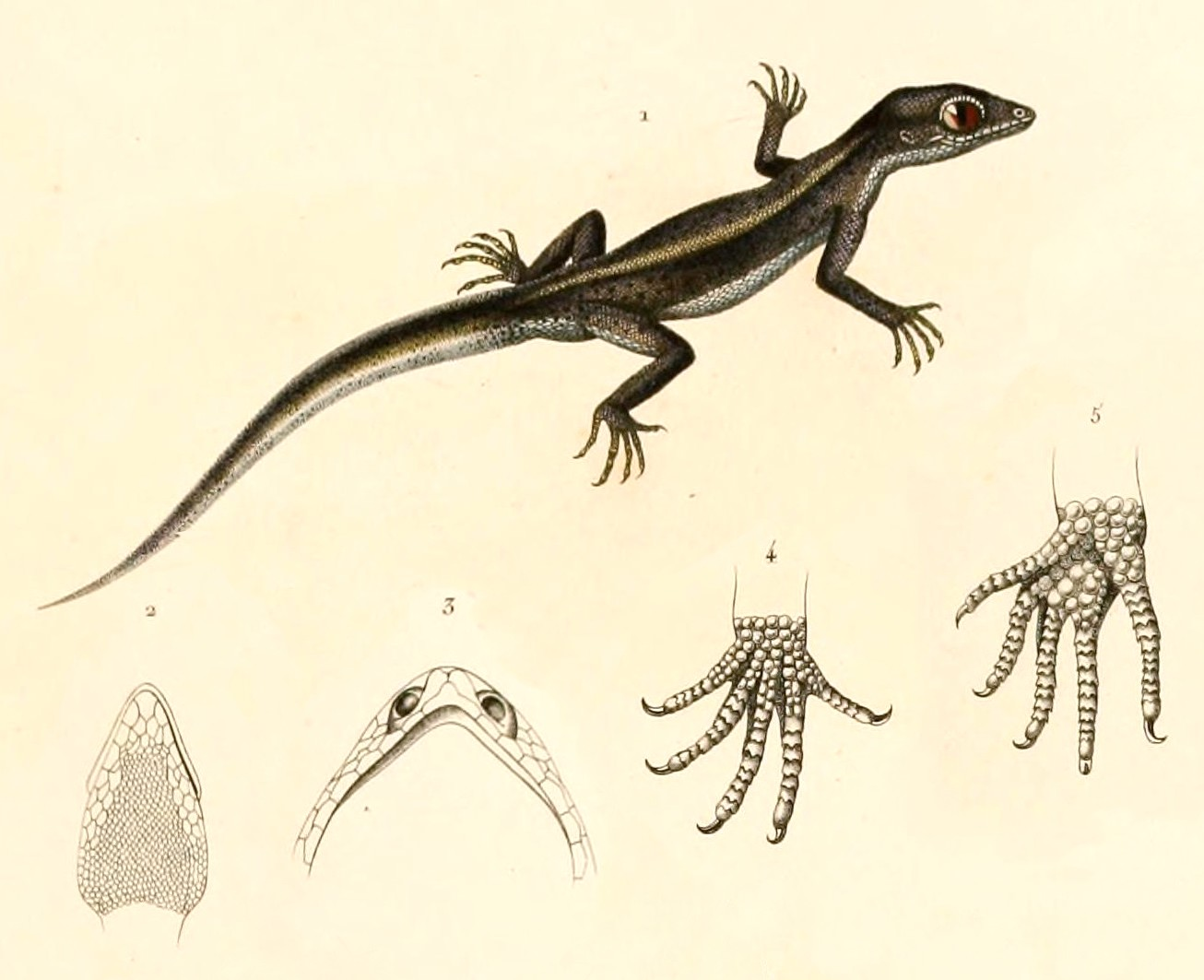 « Gymnodactylus dorbignyi » = Homonota gaudichaudii (Chilean Marked Gecko)